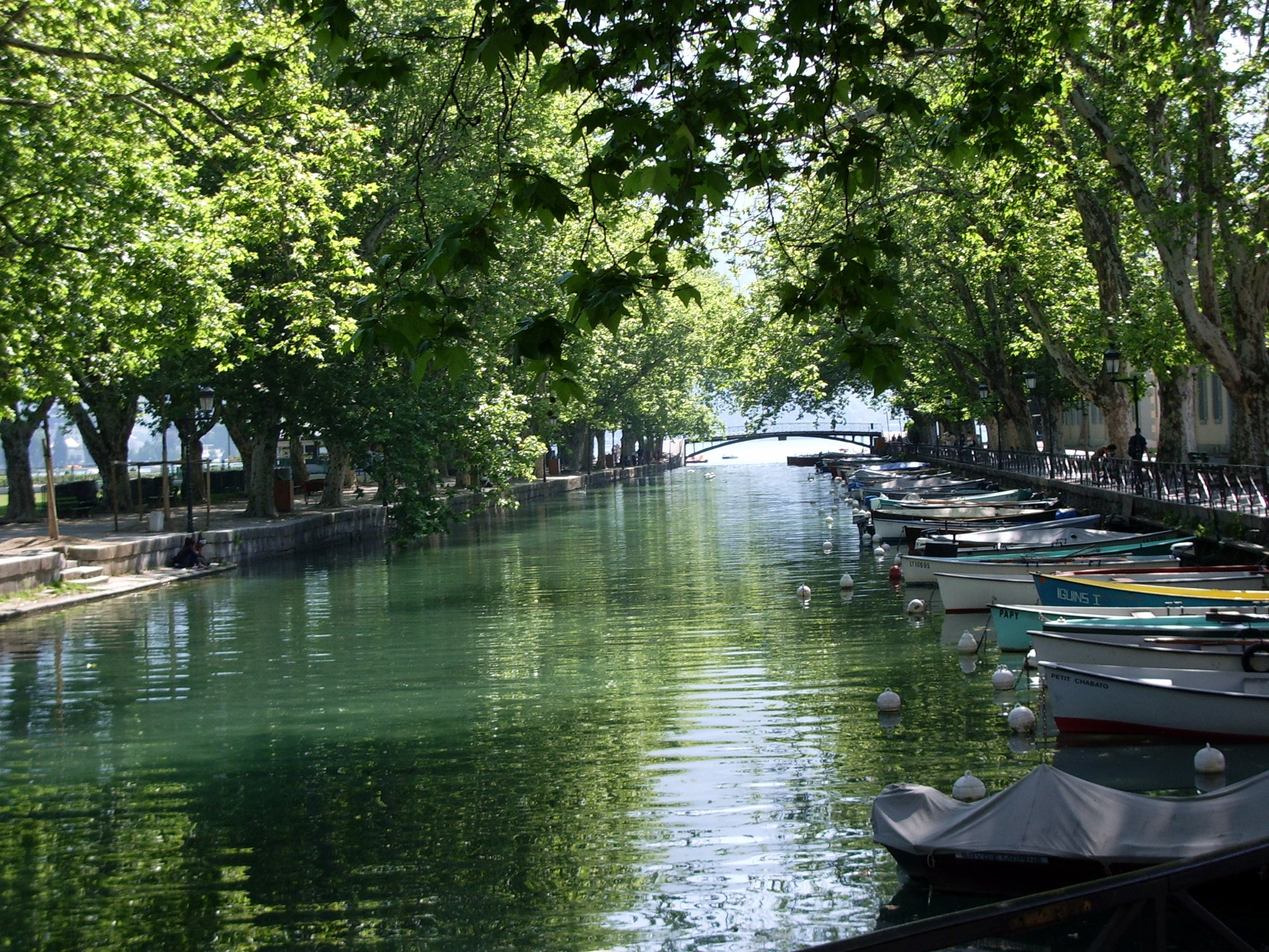 The Canal du Vassé, Annecy (Annecy).